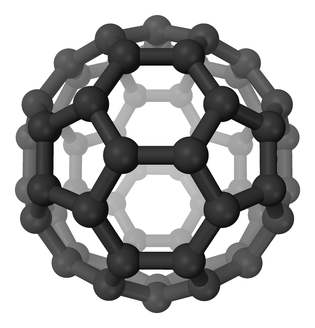 Buckminsterfullerene